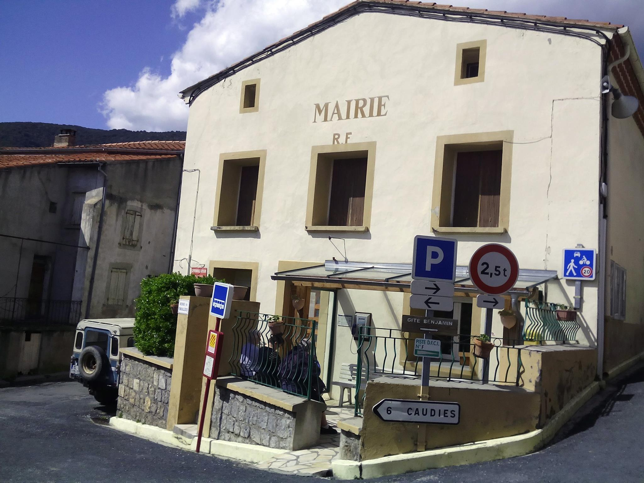 The town hall in Prugnanes